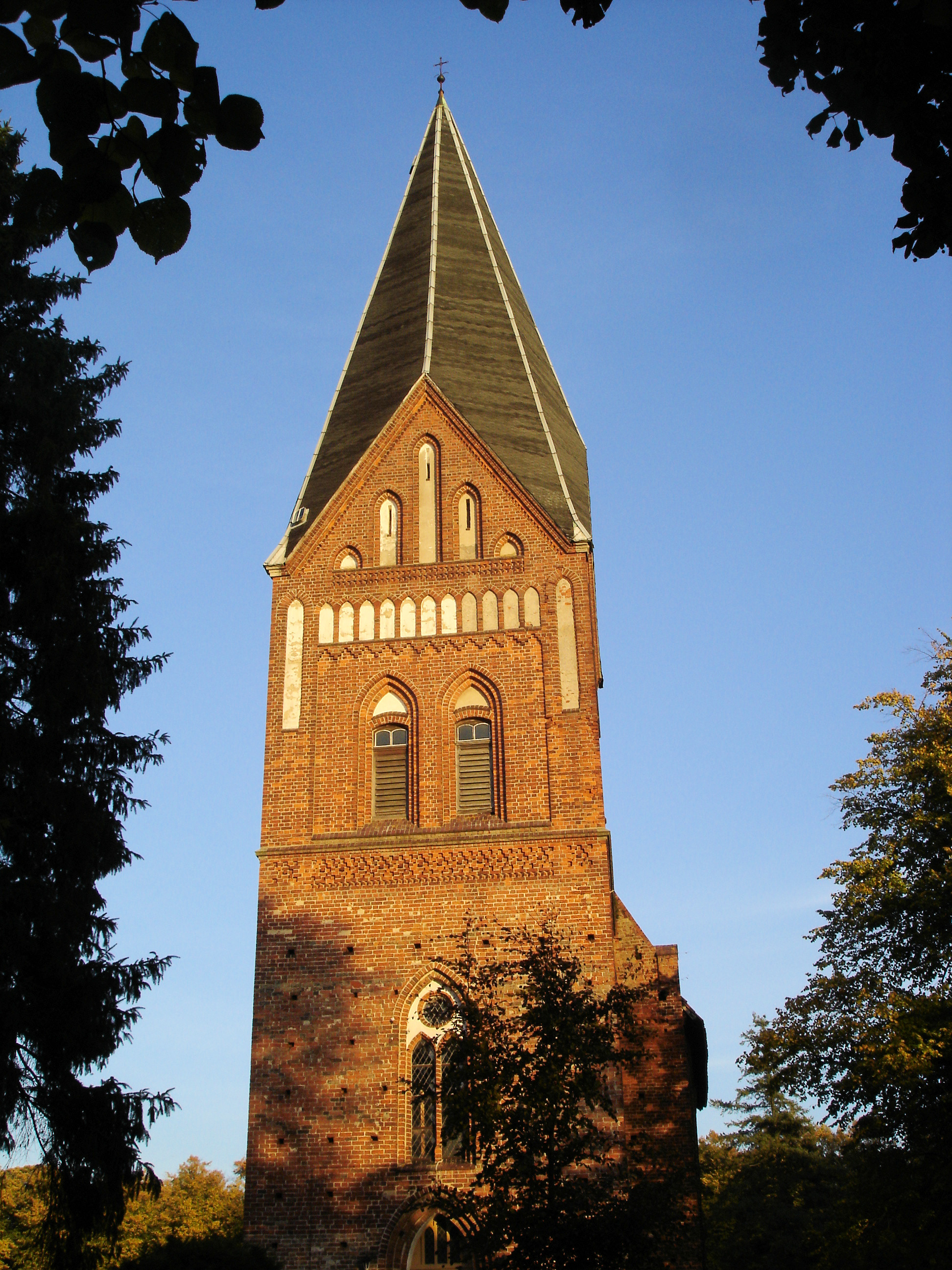 Church in Dreveskirchen, Mecklenburg, Germany